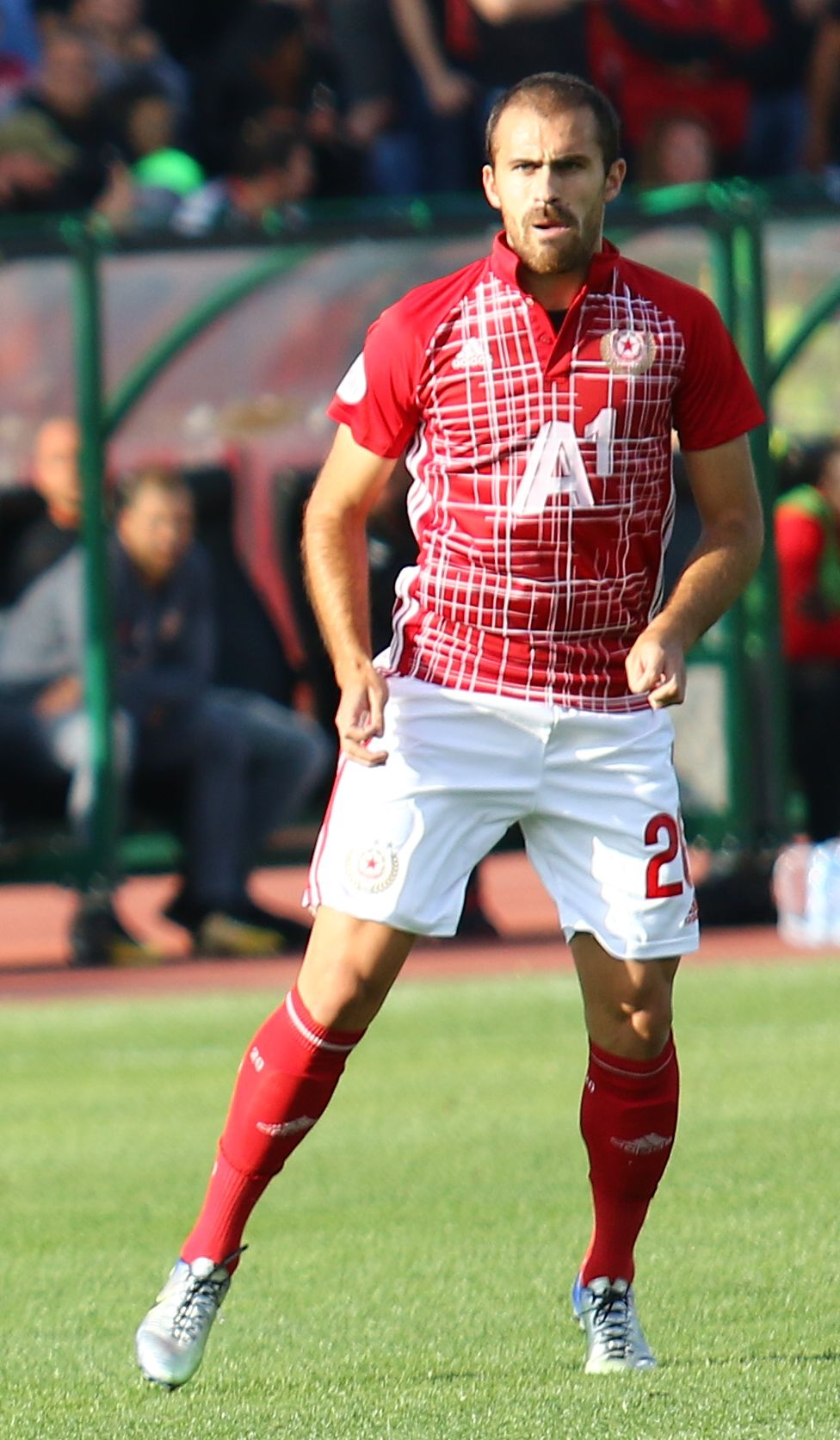 Tiago Filipe Sousa Nóbrega Rodrigues (born 29 January 1992) is a Portuguese professional footballer who plays for Bulgarian club PFC CSKA Sofia as a midfielder.